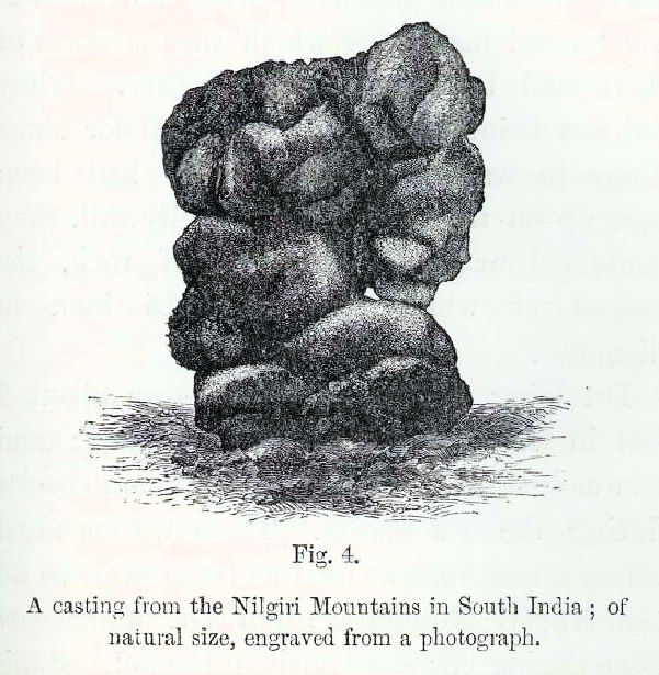 A casting from the Nilgiri Mountain in South India; engraved from a photograph